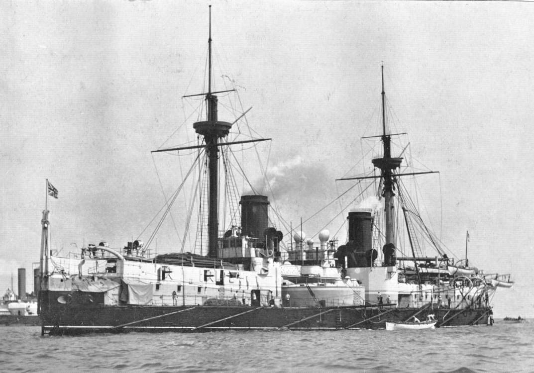 HMS Inflexible